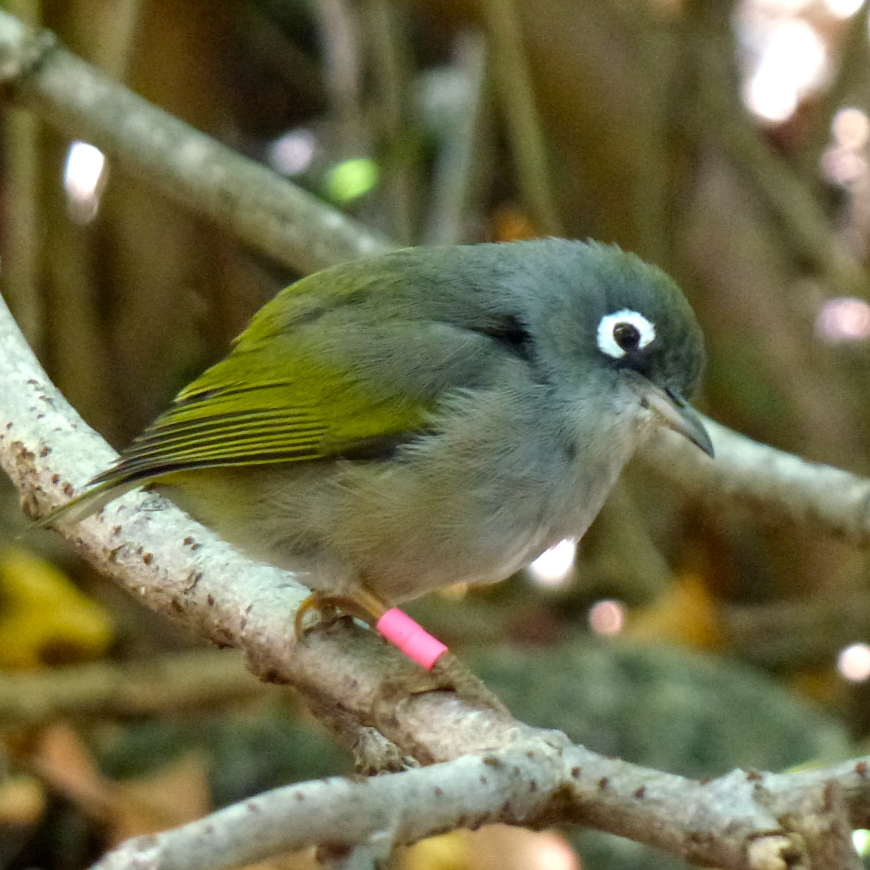 Mauritian olive White-eye